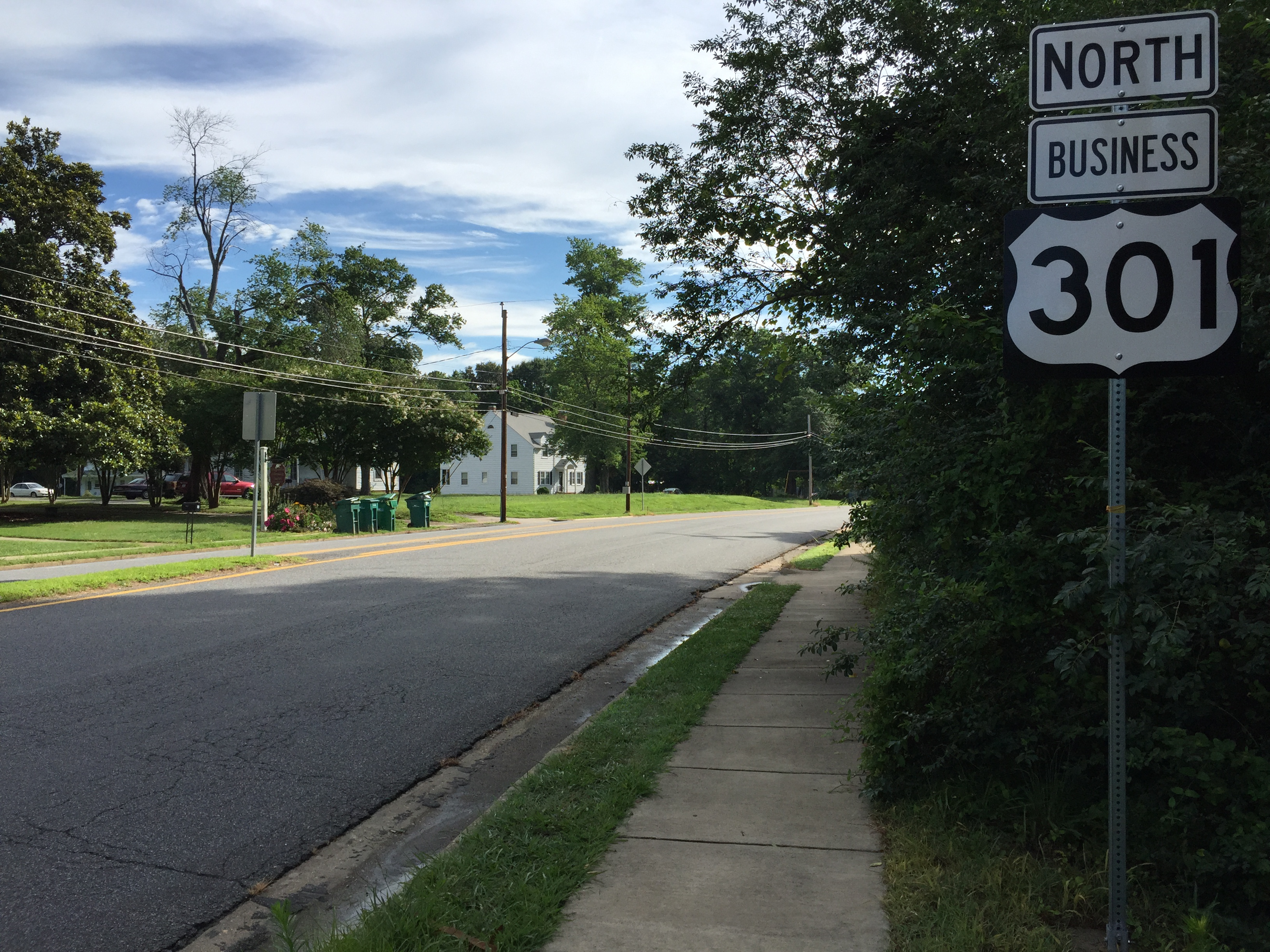 View north along U.S. Route 301 Business (Broaddus Avenue) at Virginia State Route 2 (Main Street) and Virginia State Route 207 Business in Bowling Green, Caroline County, Virginia